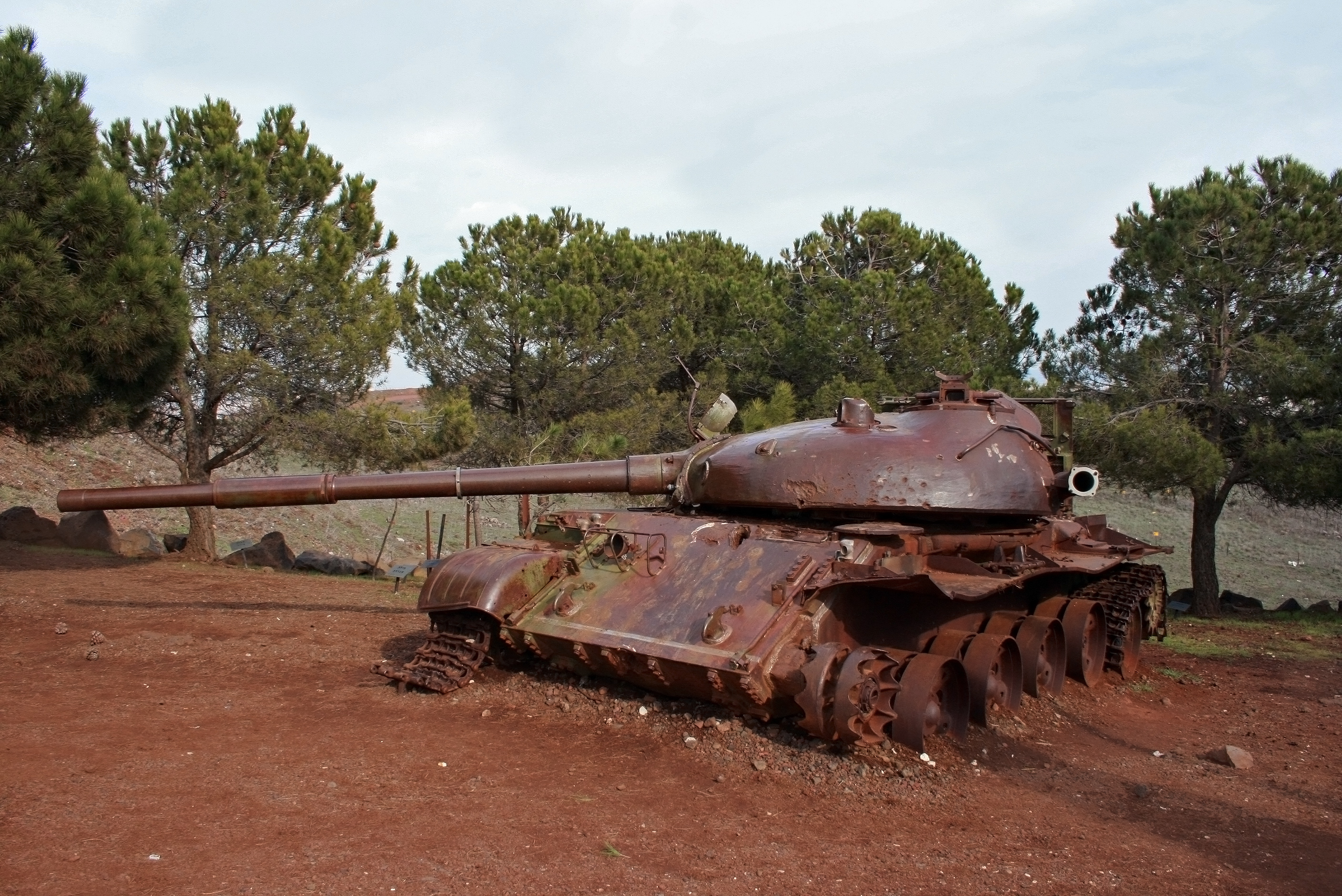 A Syrian T-62 stands as part of a memorial commemorating the battle of the 'Valley of Tears', Northern Golan Heights.